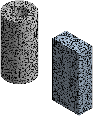 Tube (hollow cylinder) and rectangular cuboid: tetrahedral meshing, for a study by finite elemtns method. The model has 15,870 nodes and 9,163 elements. Created with Ansys Mechanical, processed with The Gimp.